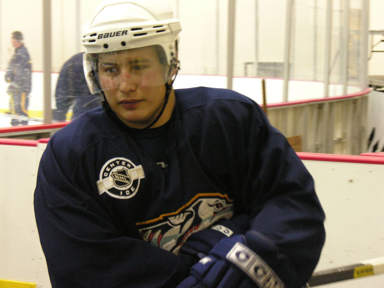 Jordin Tootoo, ice hockey player